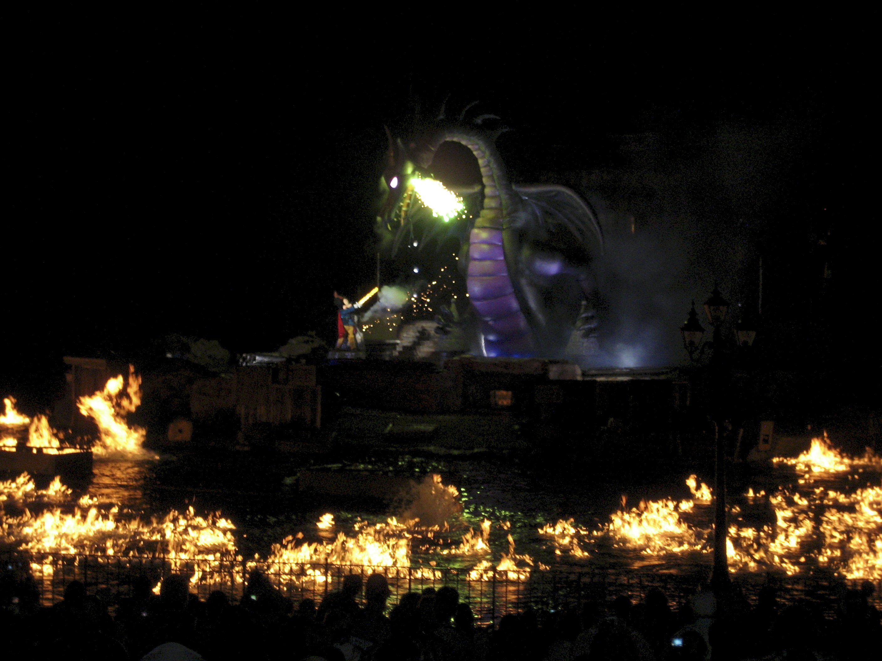 Fantasmic! as seen at Disneyland on July 4, 2010.